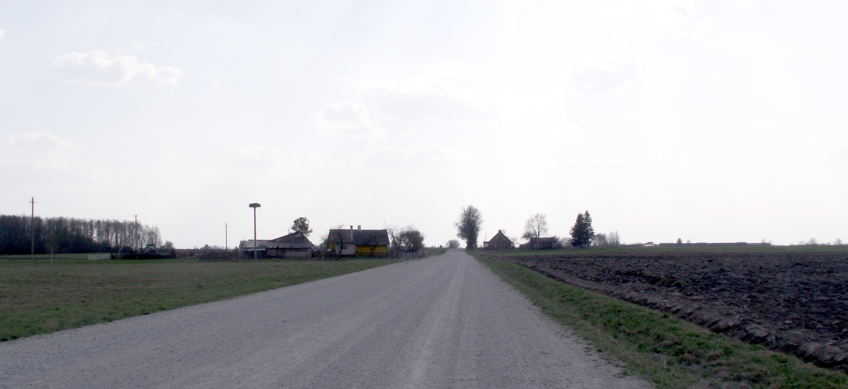 Juodžioniai, Biržai district, Lithuania